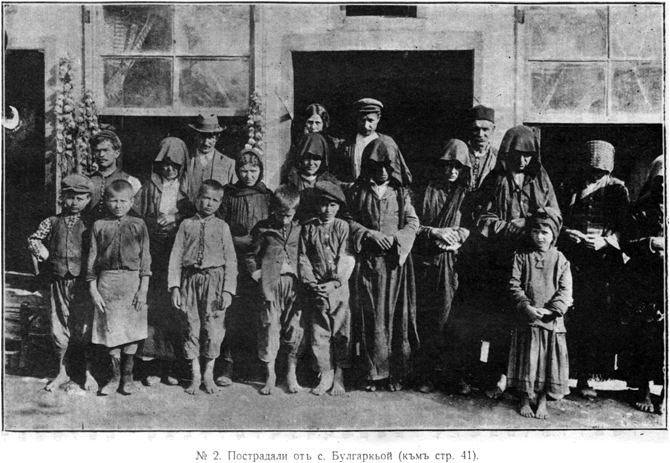 Bulgarian refugees from Bulgarkyoi (nowadays Elinohori, north-western Greece), expelled by the Ottoman forces, 1913.